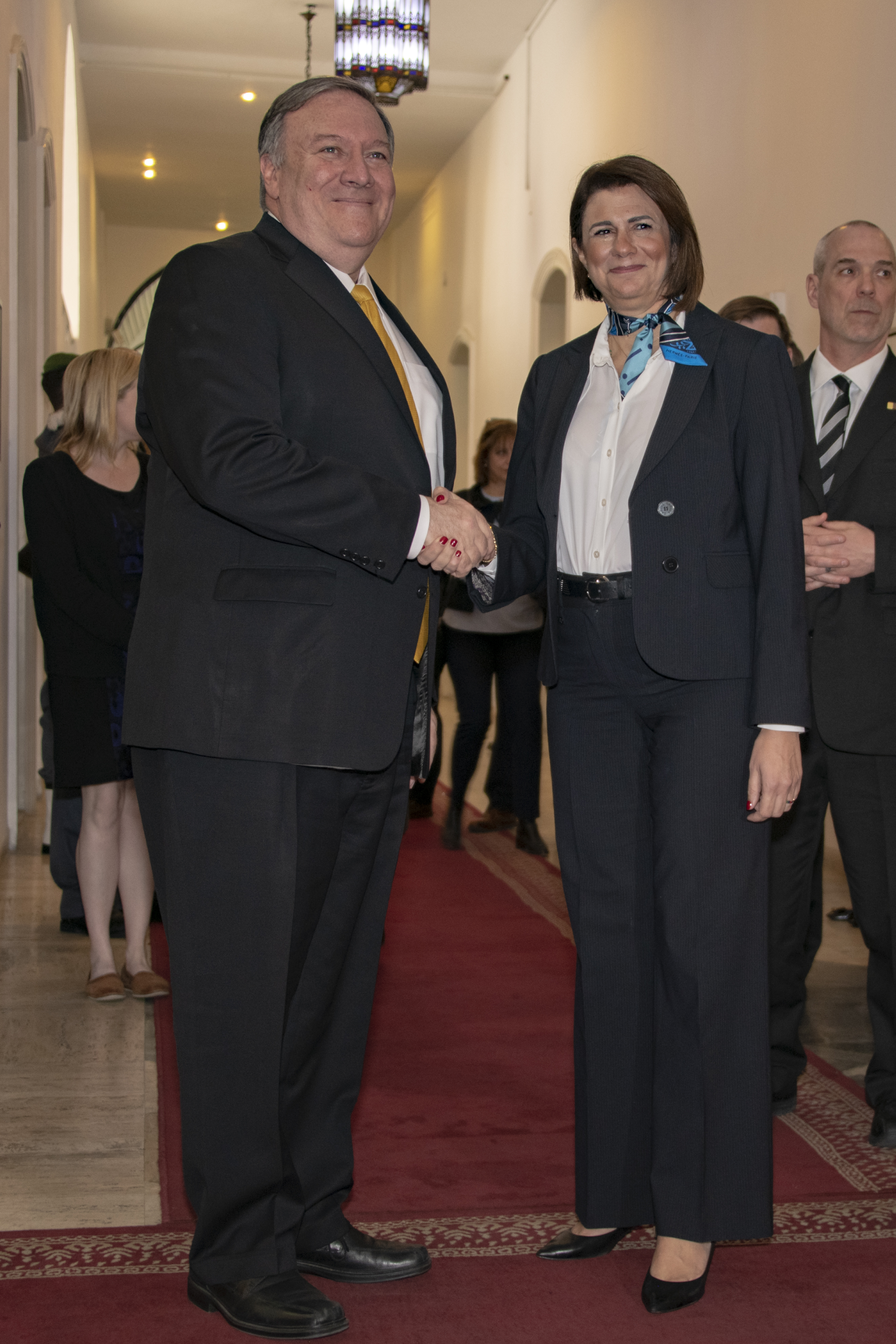 U.S. Secretary of State Michael R. Pompeo meets with Minister of Interior Raya El Hassan in Beirut, Lebanon on March 22, 2019. [State Department photo by Ron Przysucha/ Public Domain]